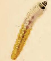 Stainton’s Natural History of the Tineina (1855–1873): Phyllonorycter messaniella larva